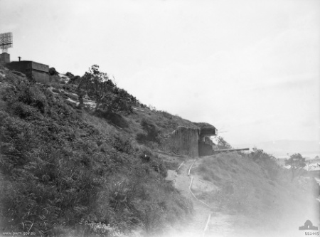 AWM caption : "KEMBLA FORTRESS AREA, N.S.W., AUSTRALIA. 1944-10-12. NO.2 GUN, ILLOWRA BATTERY KEMBLA COAST ARTILLERY, SHOWING ITS EMPLACEMENT IN HILLSIDE AND ITS SECTION POST." Comment : This shows a BL 6 inch Mk XI gun. See also File:Hill 60. battery port kembla.jpg for the same position in 2008.